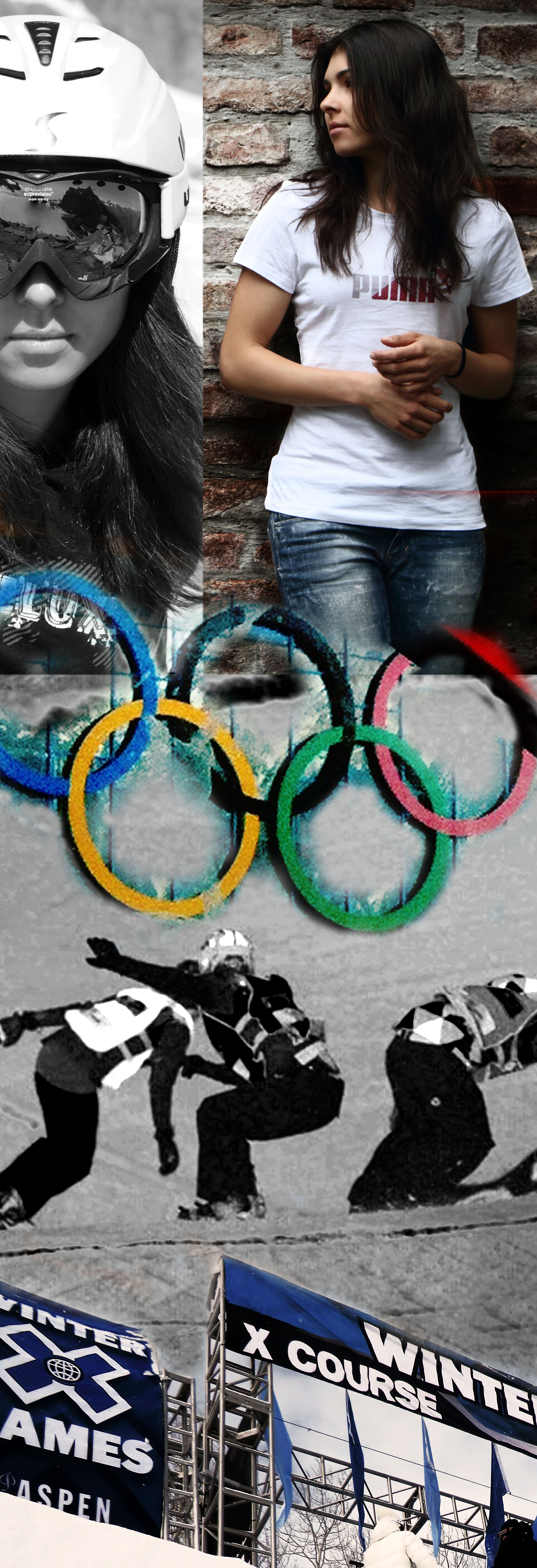 Olympic Snowboarder and XGames Finalist Maria Ramberger